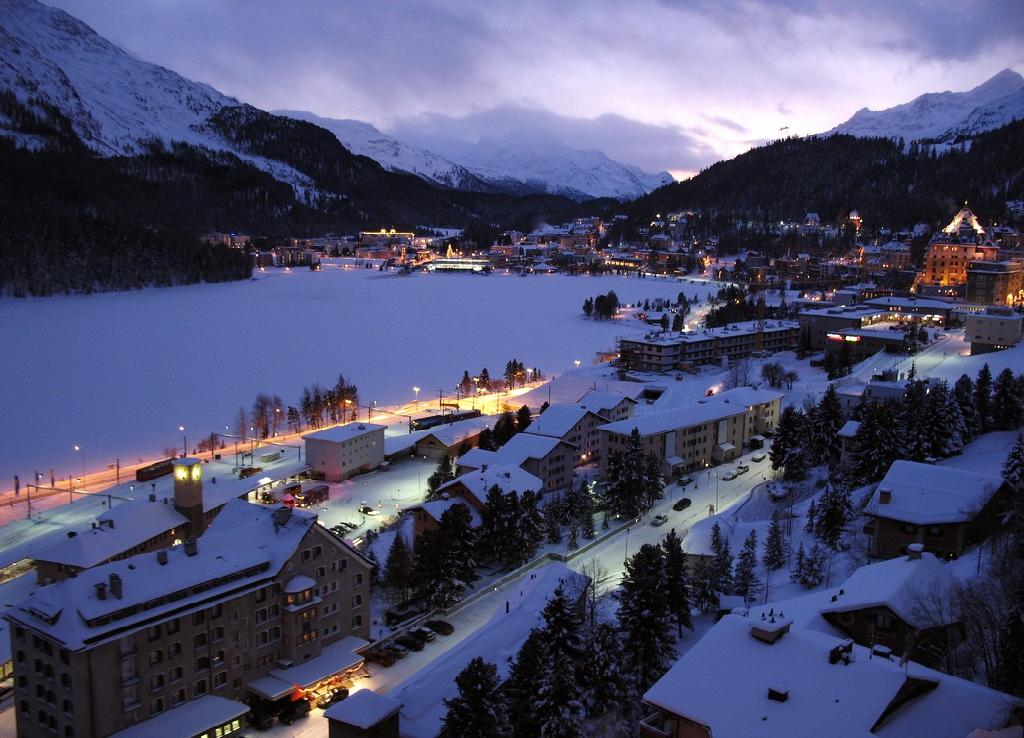 St Moritz, winter evening, with frozen Lake St. Moritz Rumantsch: San Murezzan ed il Lej da San Murezzan